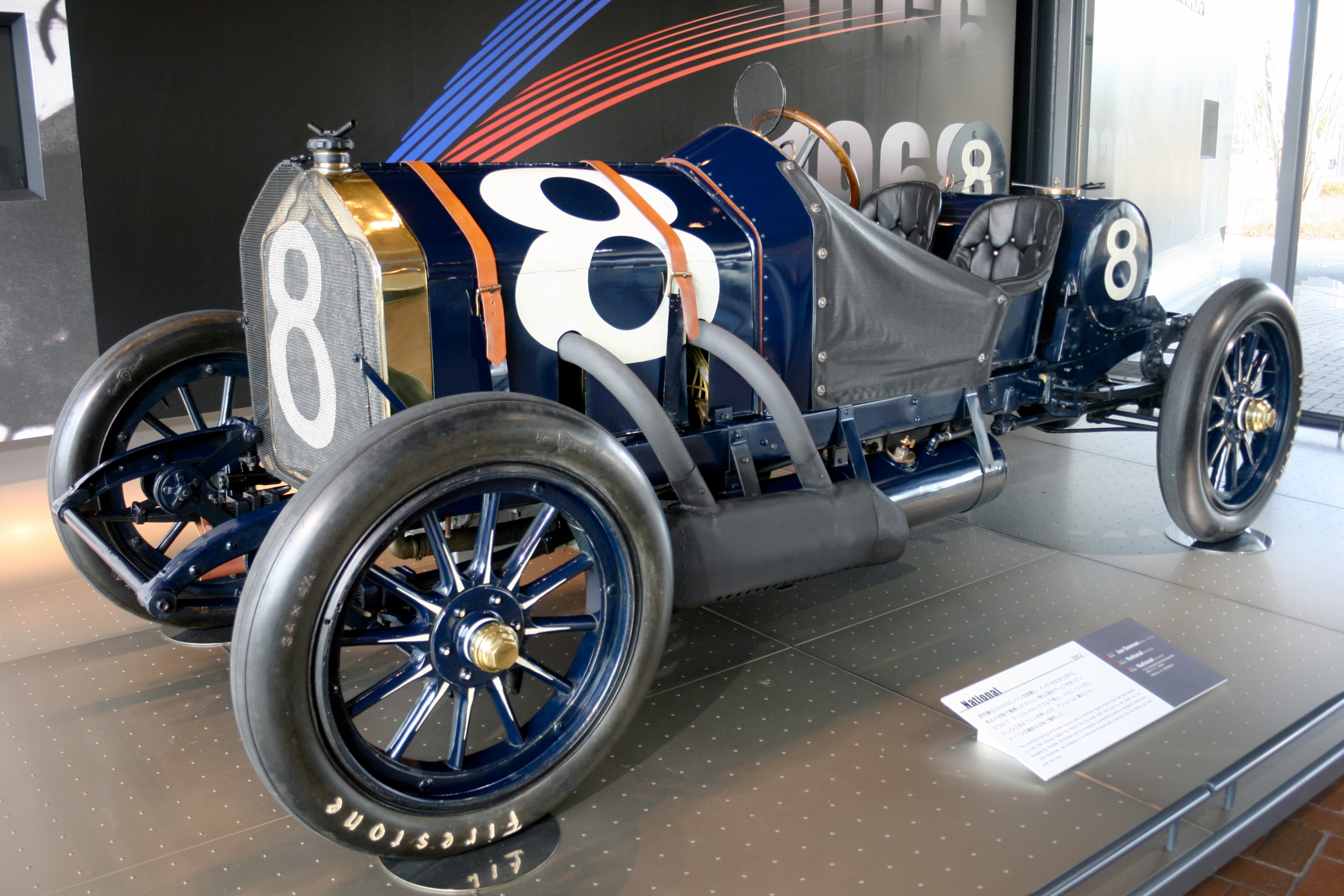 1912 National, the 1912 Indianapolis 500 winning car